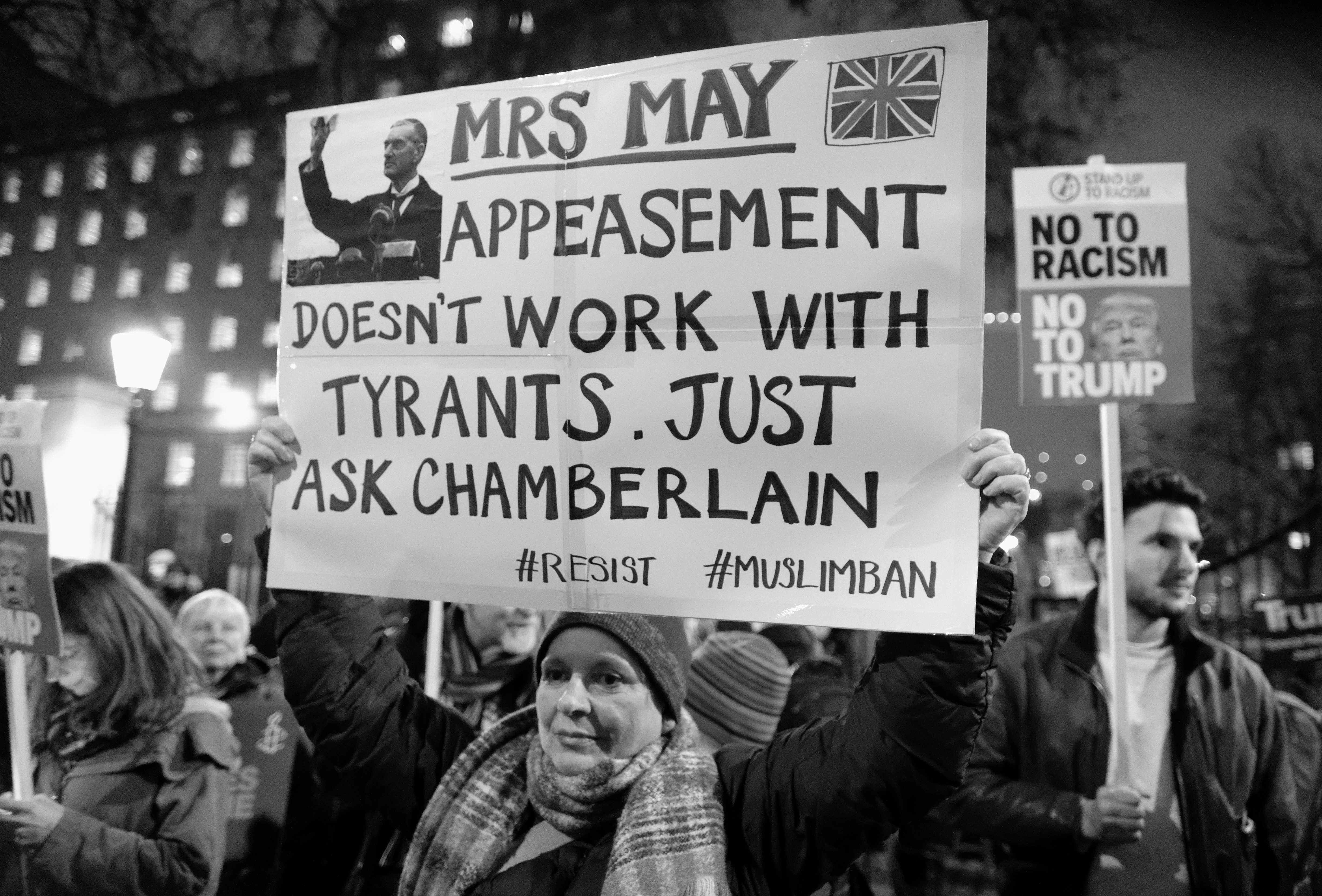 Thousands of protesters armed with placards filled most of Whitehall outside Downing Street. They were rallying to demand that prime minister Theresa May repudiate Donald Trump's shameful blanket entry ban on all Syrian, Iraqi, Somali, Yemeni, Iranian, Sudanese and Libyan nationals for the next 90 days as well as the indefinite ban on all Syrian refugees. Some also demanded that his planned state visit as a guest of the queen be revoked and that the British government also take decisive action to help desparate refugees and ease the conditions within the UK for asylum seekers. An estimated ten thousand gathered outside Downing Street including human rights activist Peter Tatchel, former England striker Gary Lineker and singer Lily Allen. Among the most frequent chants heard were "May shame on you", "dump Trump", "build bridges not walls" and "refugees are welcome here". Protesters pointed out that all the countries effected were Muslim majority nations and yet none of the countries targeted had any nationals implicated in any recent terrorist attack within the United States. Ironically it is US foreign policy in the Middle East, including years of bombing and support for regional dictators that is one of the main causes of the current refugee crisis.